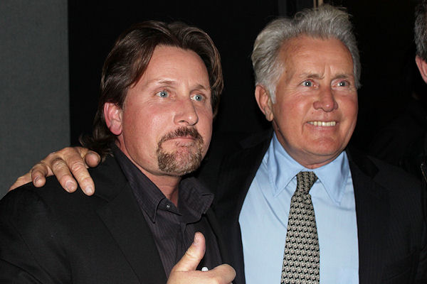 Martin Sheen and Emilio Estevez at the BFI. Premiere of 'The Way', NFT, London. 21st February 2011